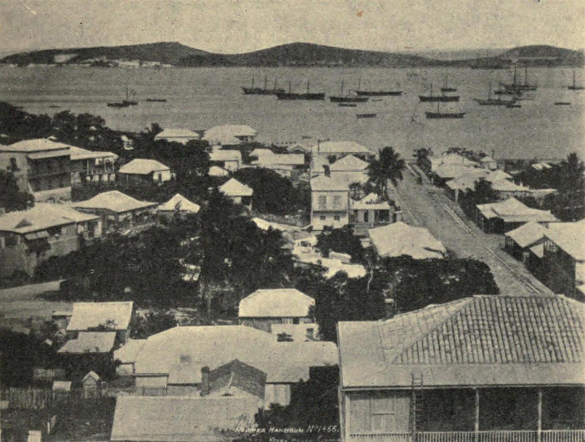 General View of Nouméa.